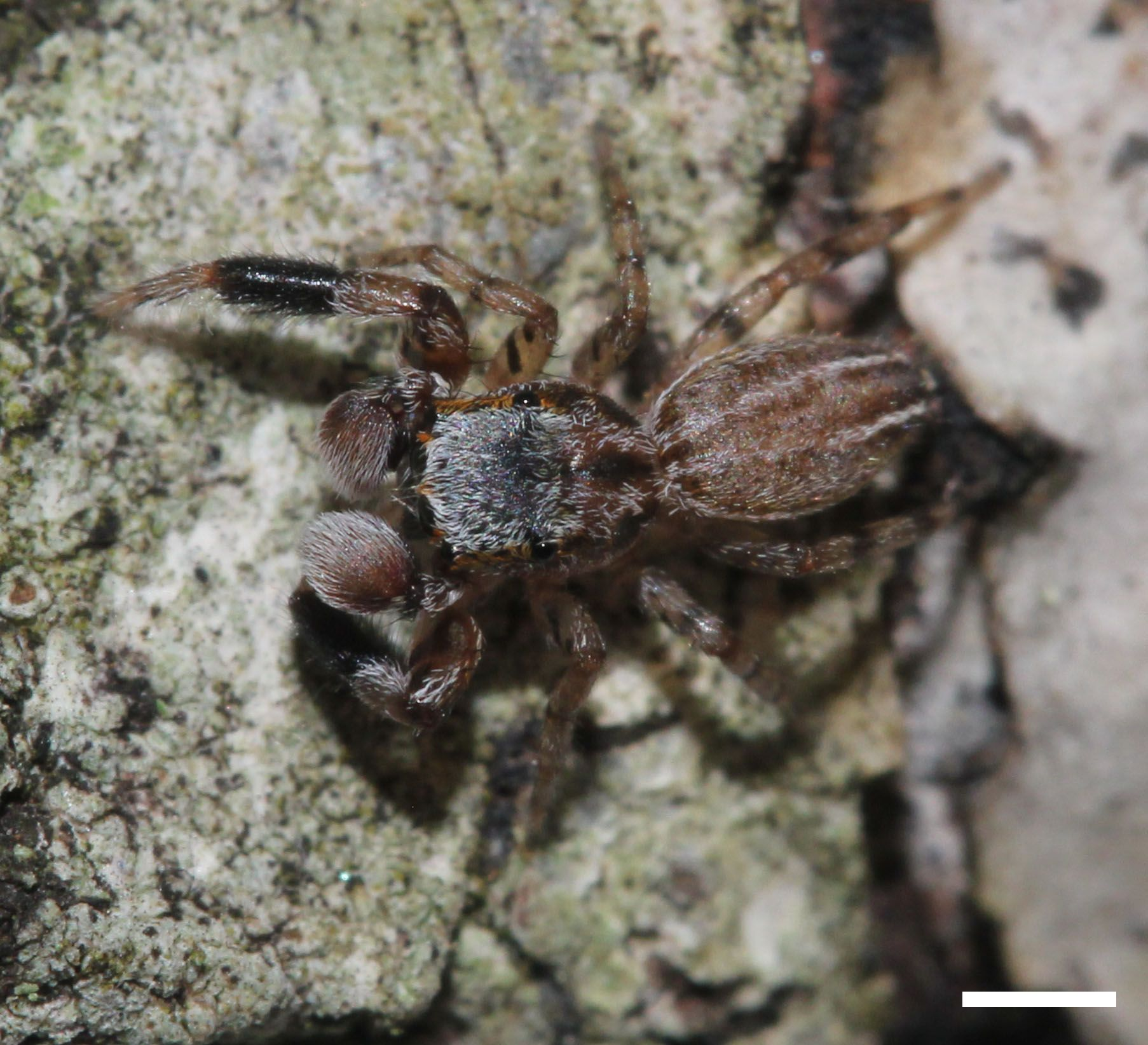 Adult male Marpissa lineata jumping spider from southern Greenville County, South Carolina, United States. Scale equals 1 mm.